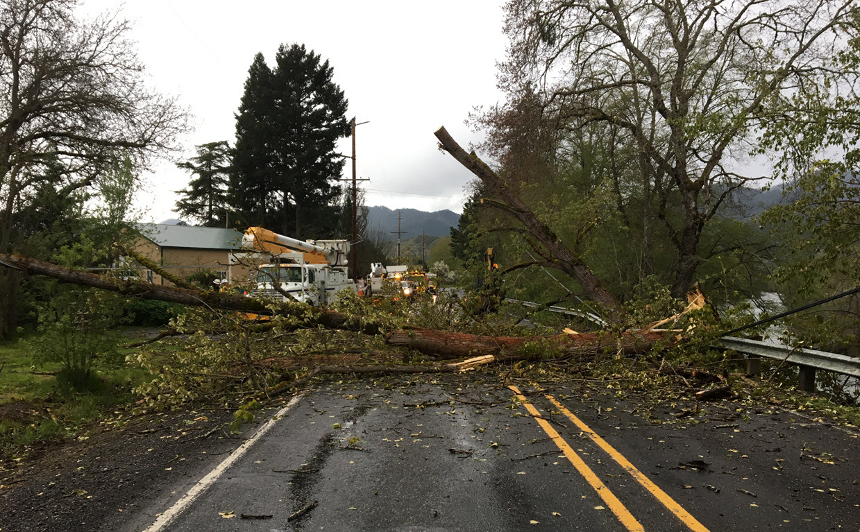 Oregon 99 (Rogue River Highway) MP 12 was closed near Foots Creek due to downed trees and power lines. High winds and downed trees and powerlines affected travel throughout the region and state on Friday, April 7. The road was cleared and opened to traffic later in the day.